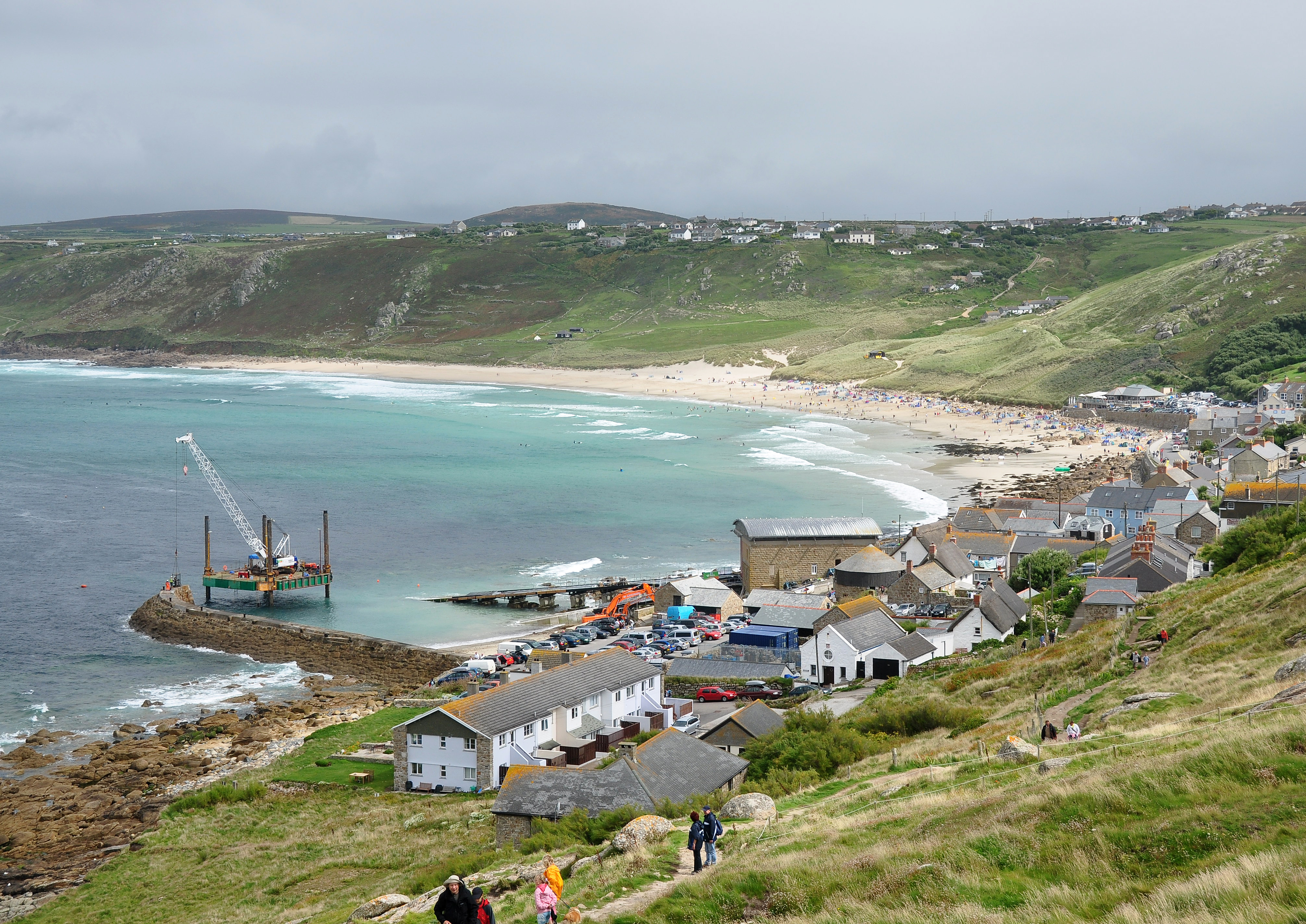 Sennen Cove, Cornwall, seen from Mayon Cliff. The rig in the harbour is working to redevelop the lifeboat station.